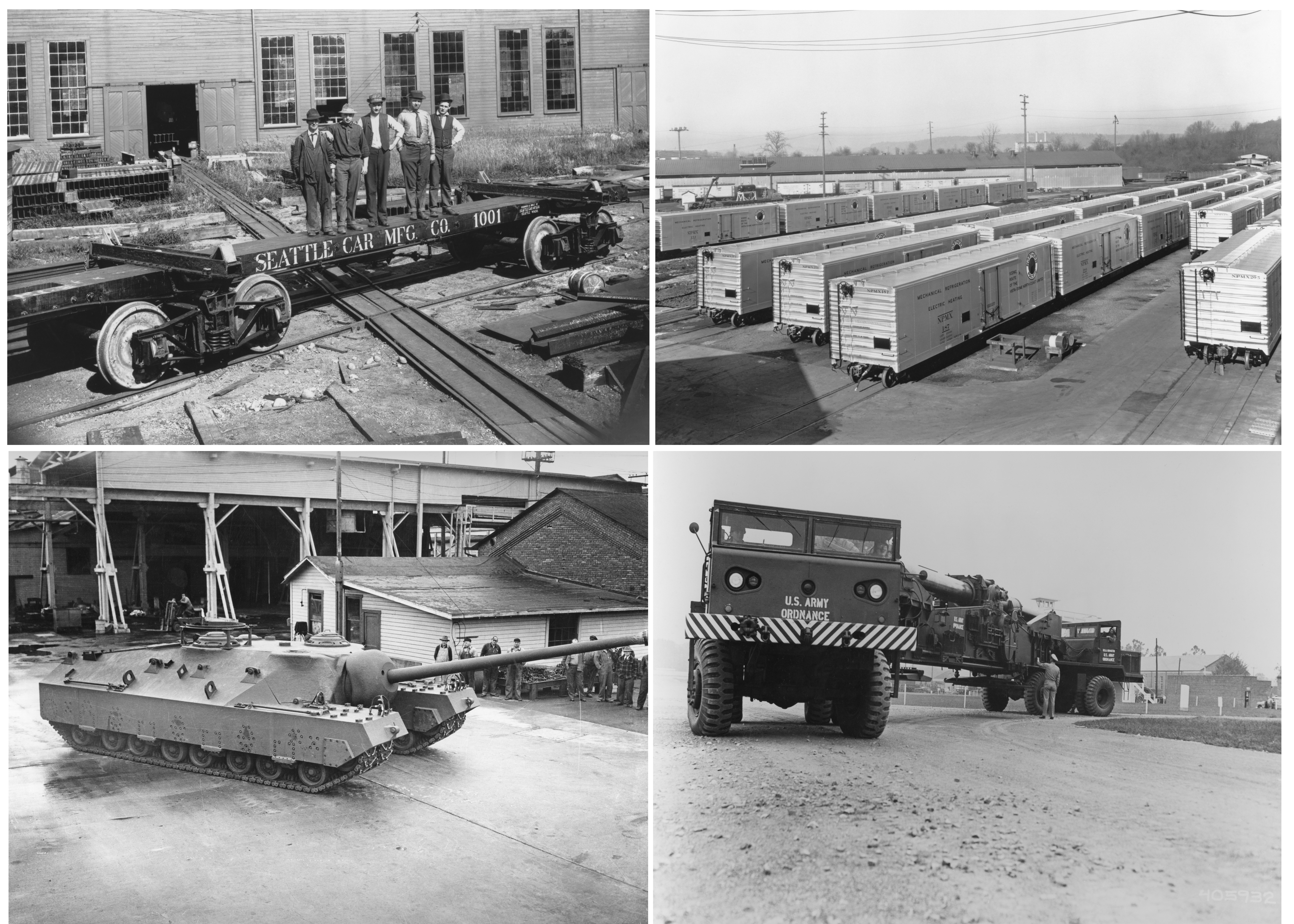 This picture gives a brief overview of Paccar's evolution through its early years. It depicts company's early history when it produced rail roads and military equipment.